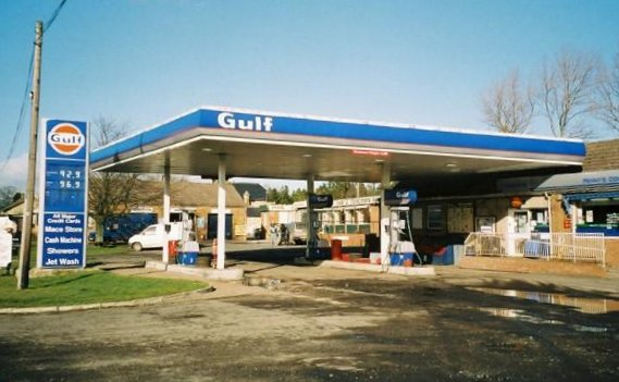 Photograph of Gulf service station, on the A697 (Morpeth to Coldstream road) near Wooler (Northumberland, England) - February 2006 Taken by myself with my own camera. Absolutely no copyright issues BScar23625 14:46, 18 April 2006 (UTC)